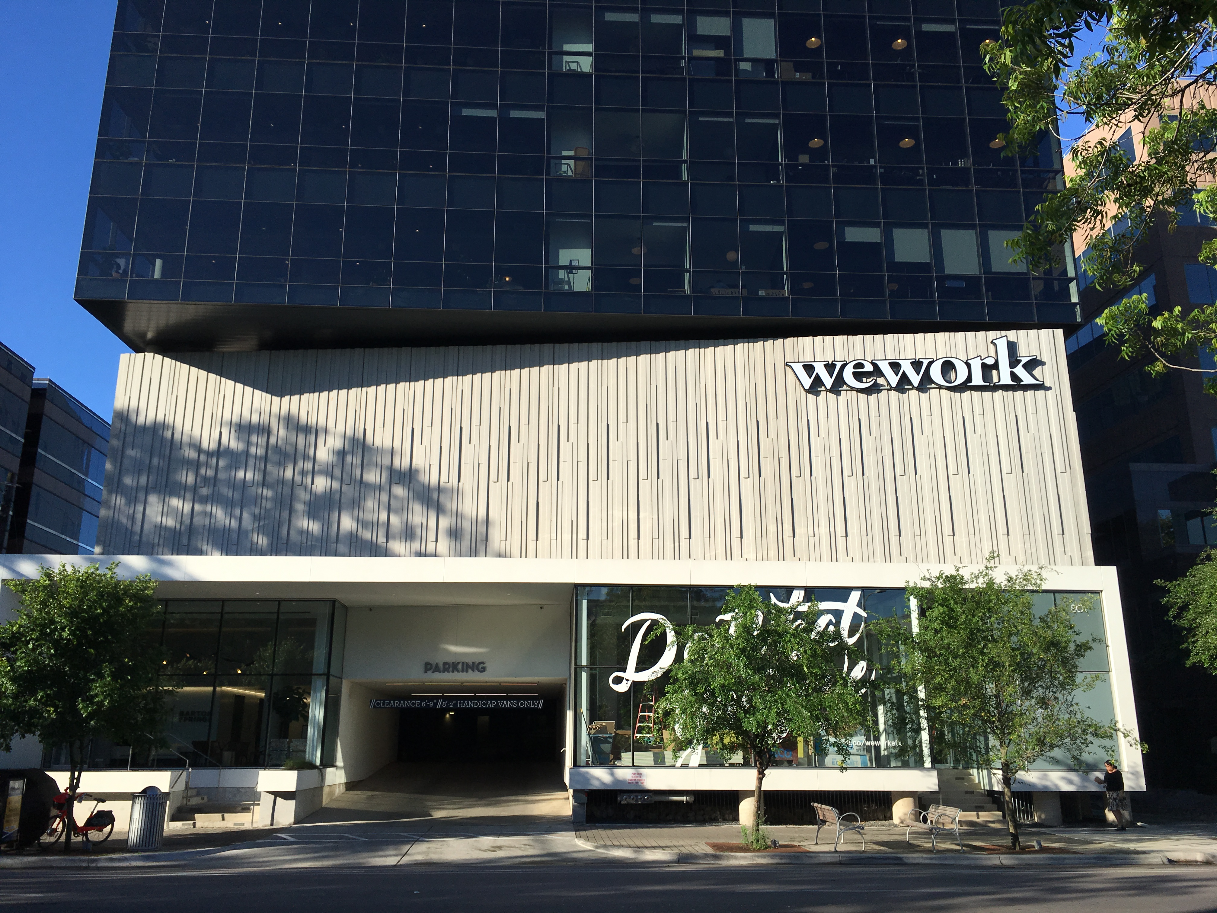 Ziften Headquarters; WeWork Austin Building; Austin, Texas